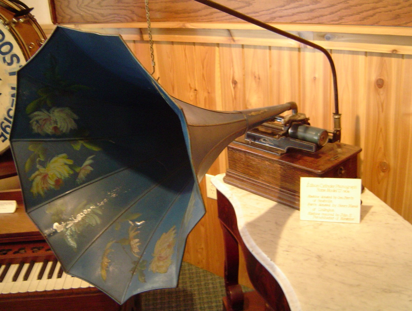 Took picture myself 2005